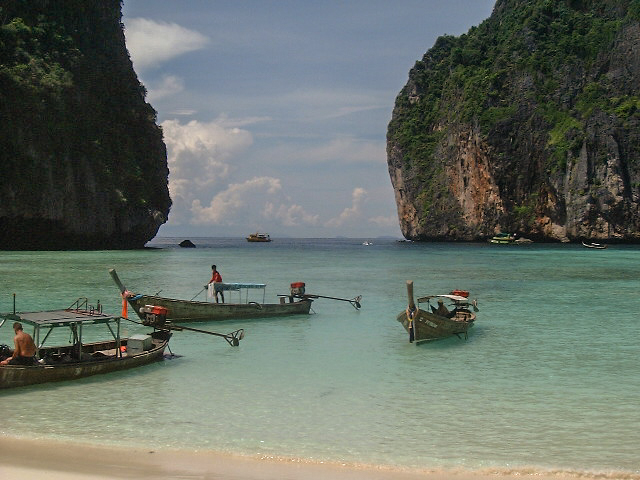 Kho Pippi-Maya Beach, Thailand